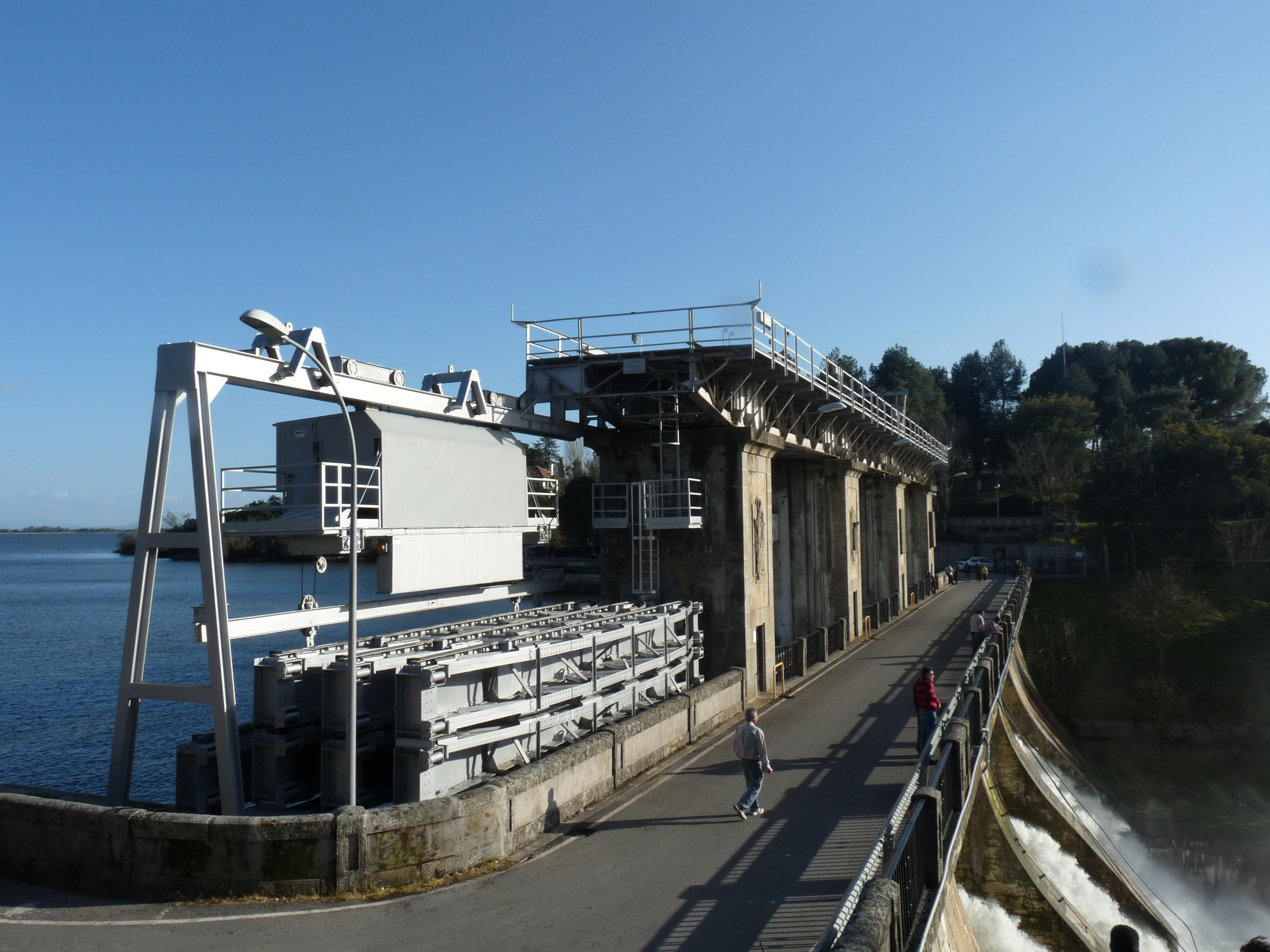 Main view of the Rosarito Dam, Ávila, Spain.